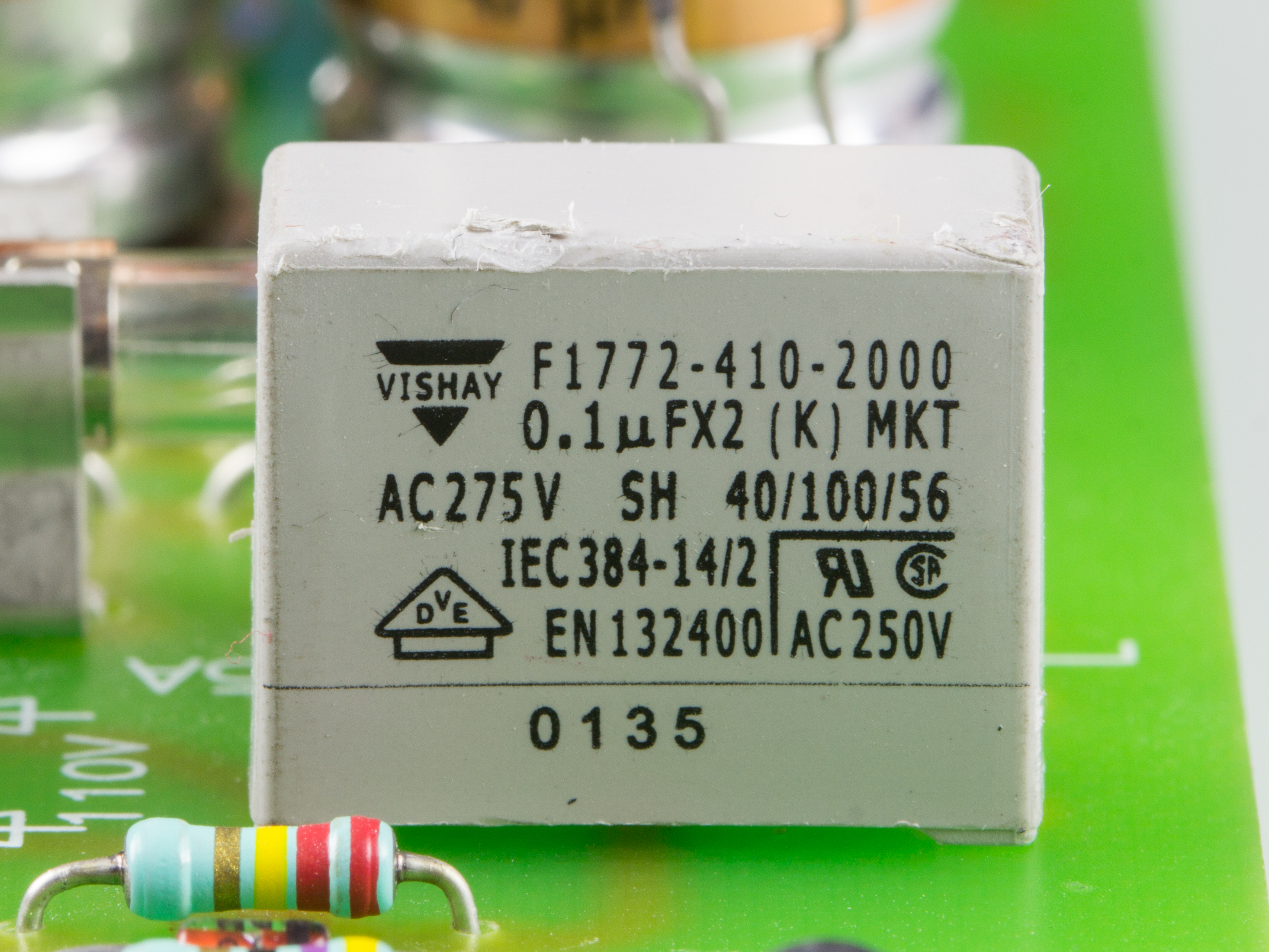 Nedap ESD1 - power supply board 1 - Vishay F1772-410-2000 - Interference Suppression Film Capacitor - Class X2 Radial MKT 310 V AC - High Stability Grade - 0.1 μF